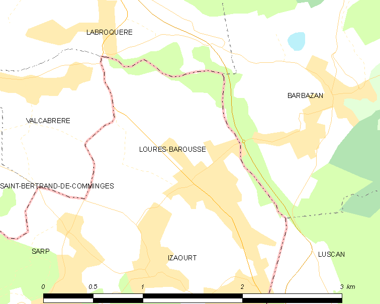 Map of French municipality